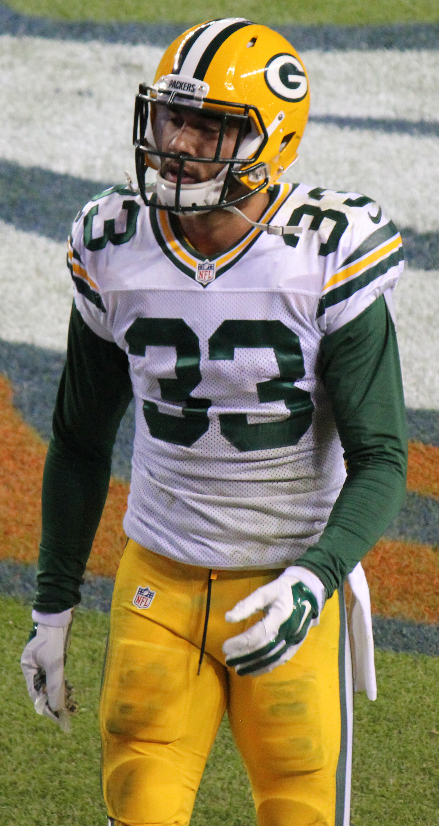 Micah Hyde, a player on the National Football League.